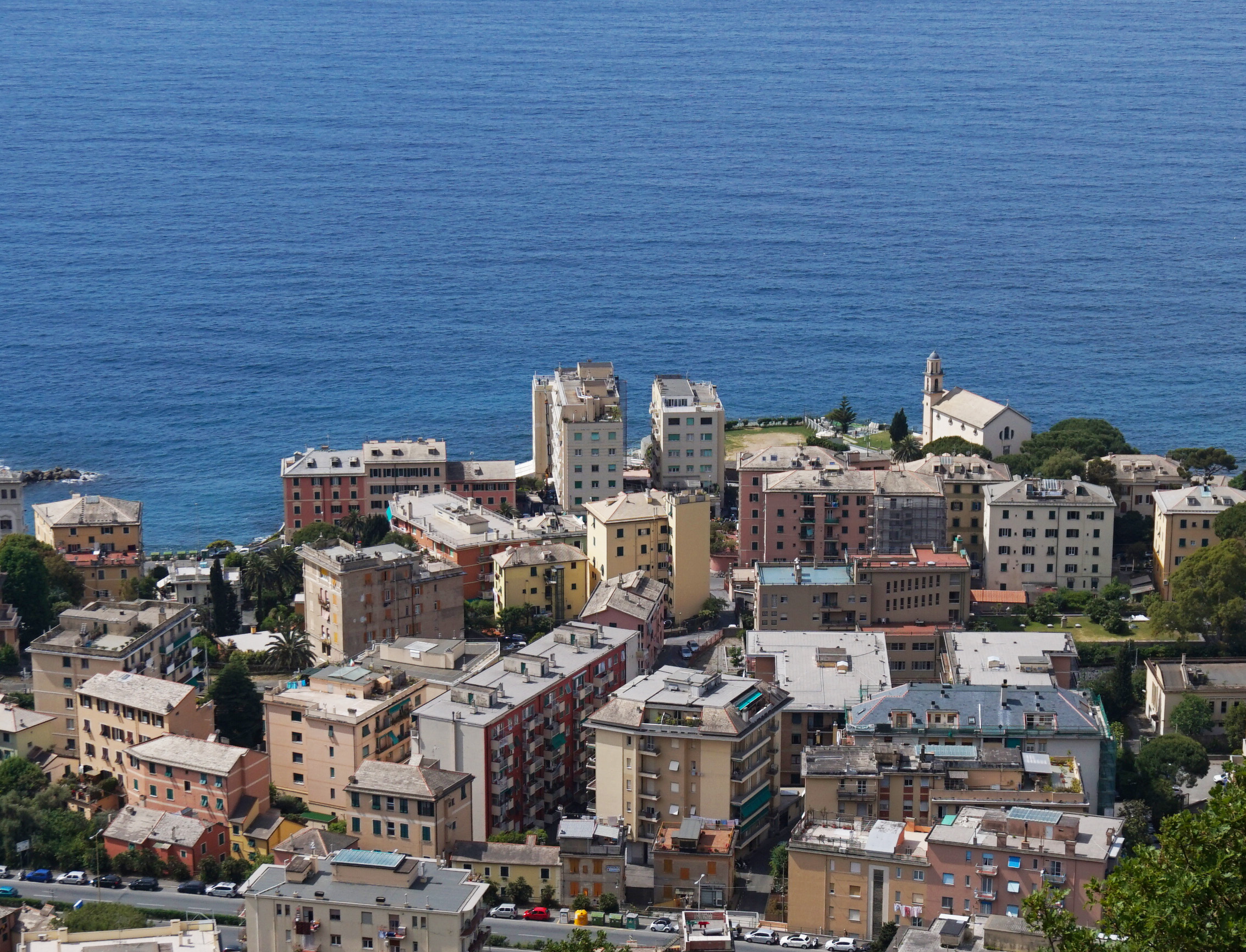 View of Quinto, eastern suburb of Genoa. This photograph was taken with a Sony Alpha a5000.